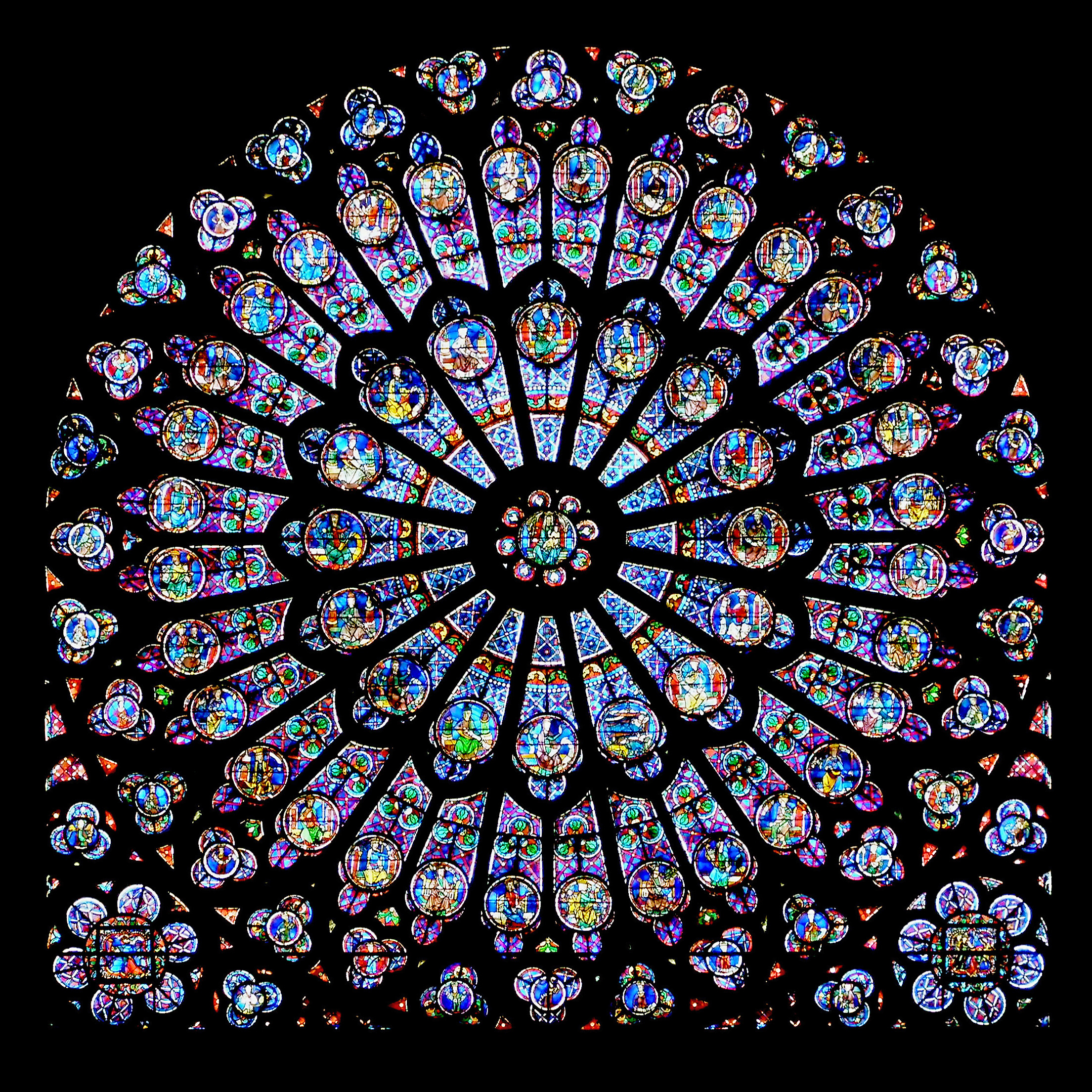 Rayonnant north rose window of the Cathédrale Notre-Dame de Paris